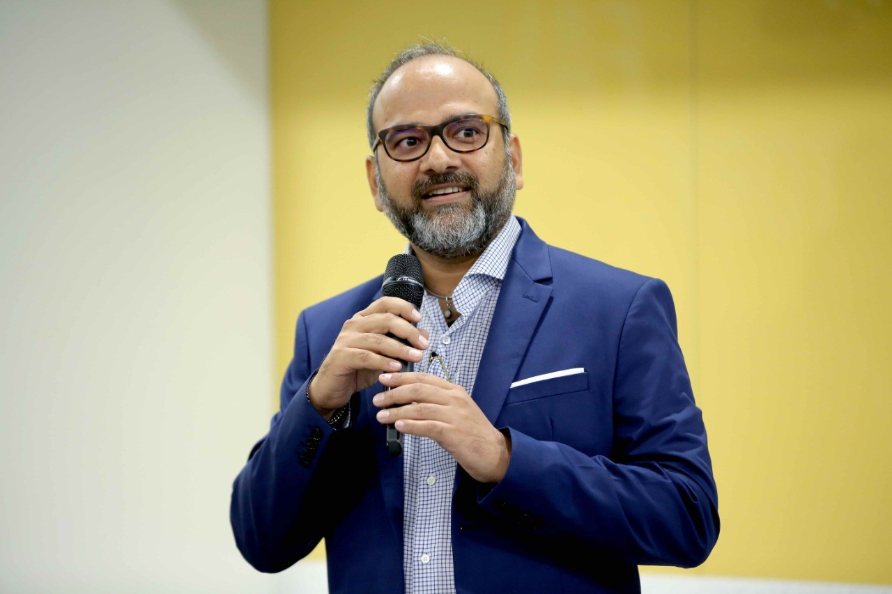 Rudratej Singh BMW CEO speaking about the possible in automobile during an auto event